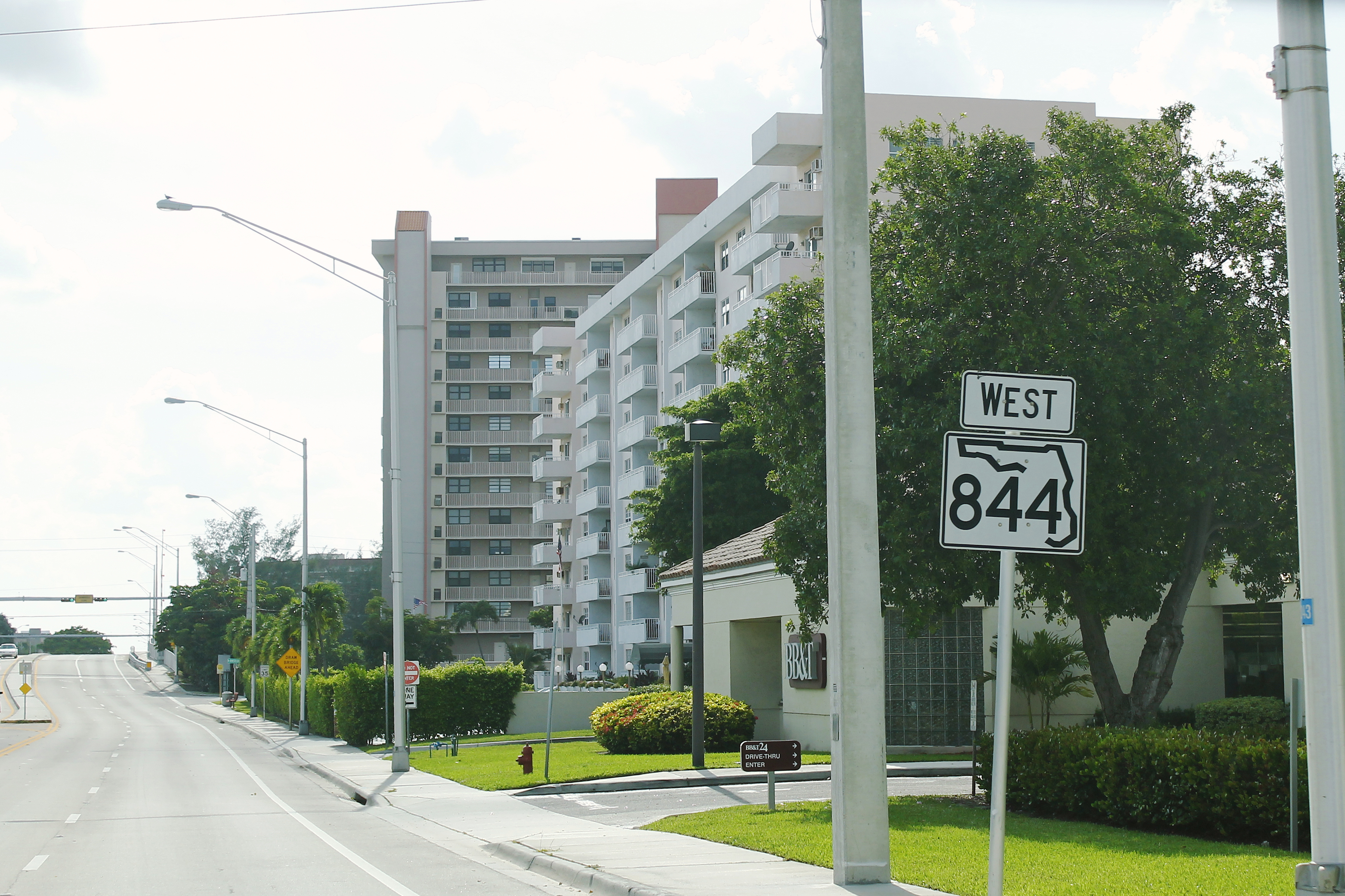 A sign for Florida State Road 844, located in Pompano Beach, Florida.